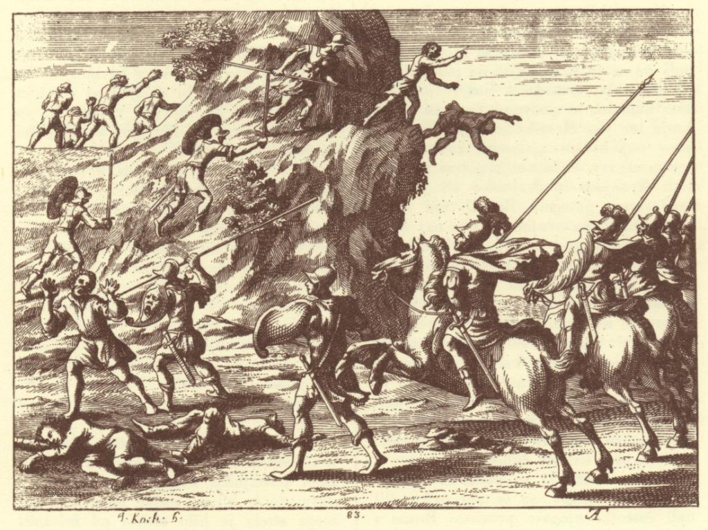 Persuing of peasant rebels (Slovenia), Technique: Copper engraving